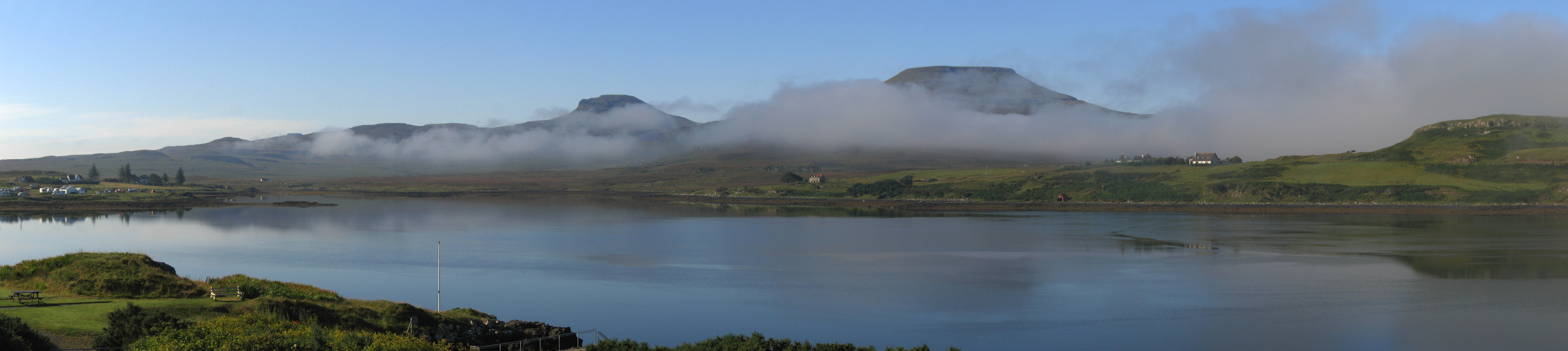 Loch Dunvegan near Dunvegan Castle on the Isle of Skye with mist rolling over the hill. Panoramic image made from own photos using hugin and enblend.